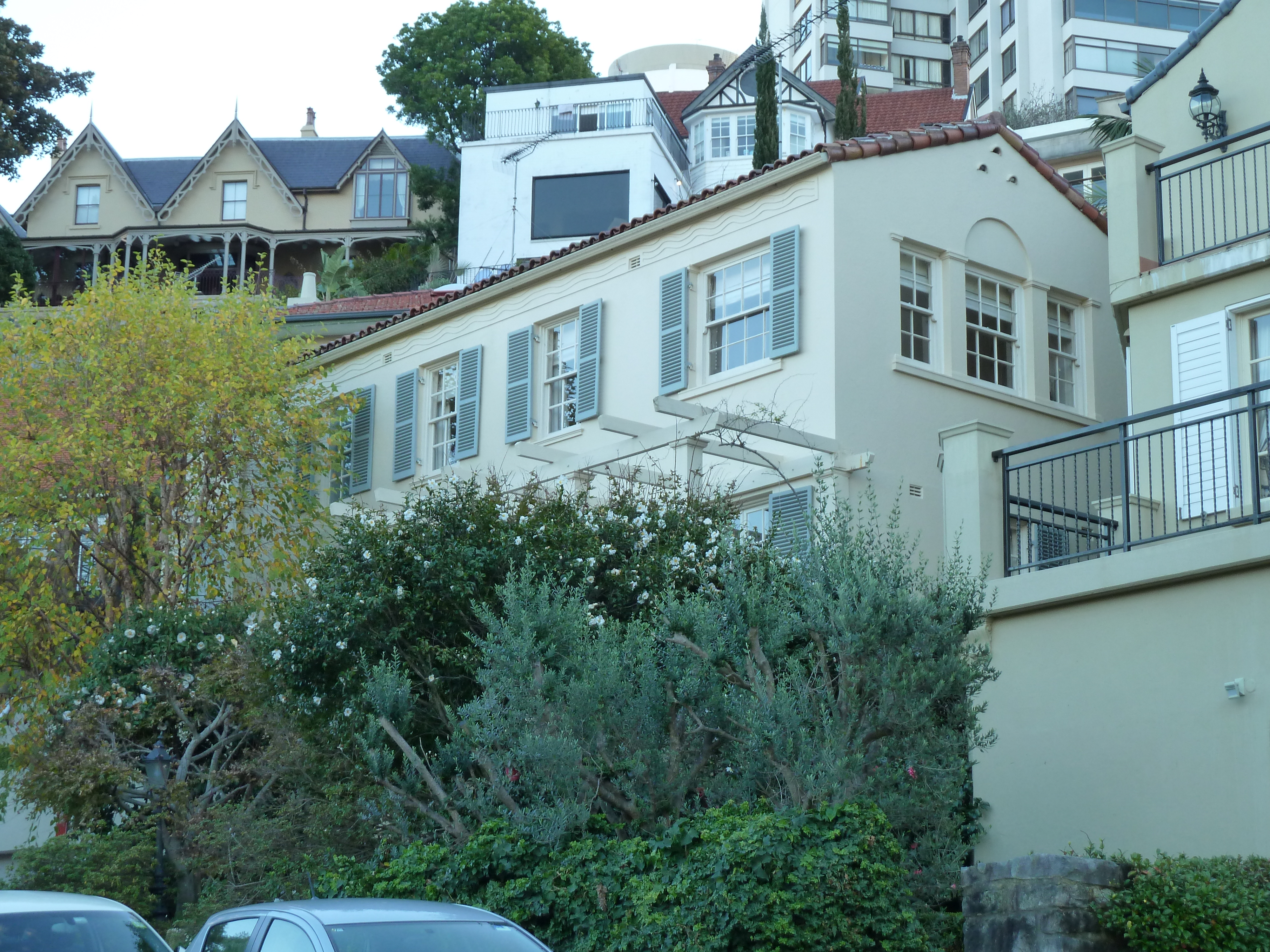 6 Wiston Garden, Double Bay, New South Wales, designed by Leslie Wilkinson, Australia.